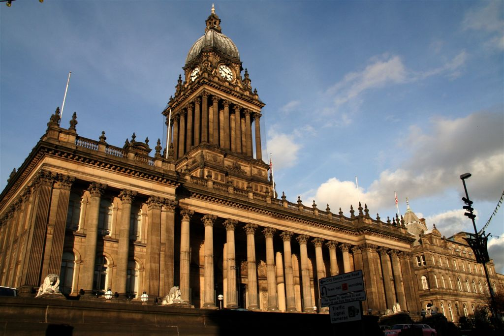 Leeds Town Hall, Leeds, West Yorkshire, England.